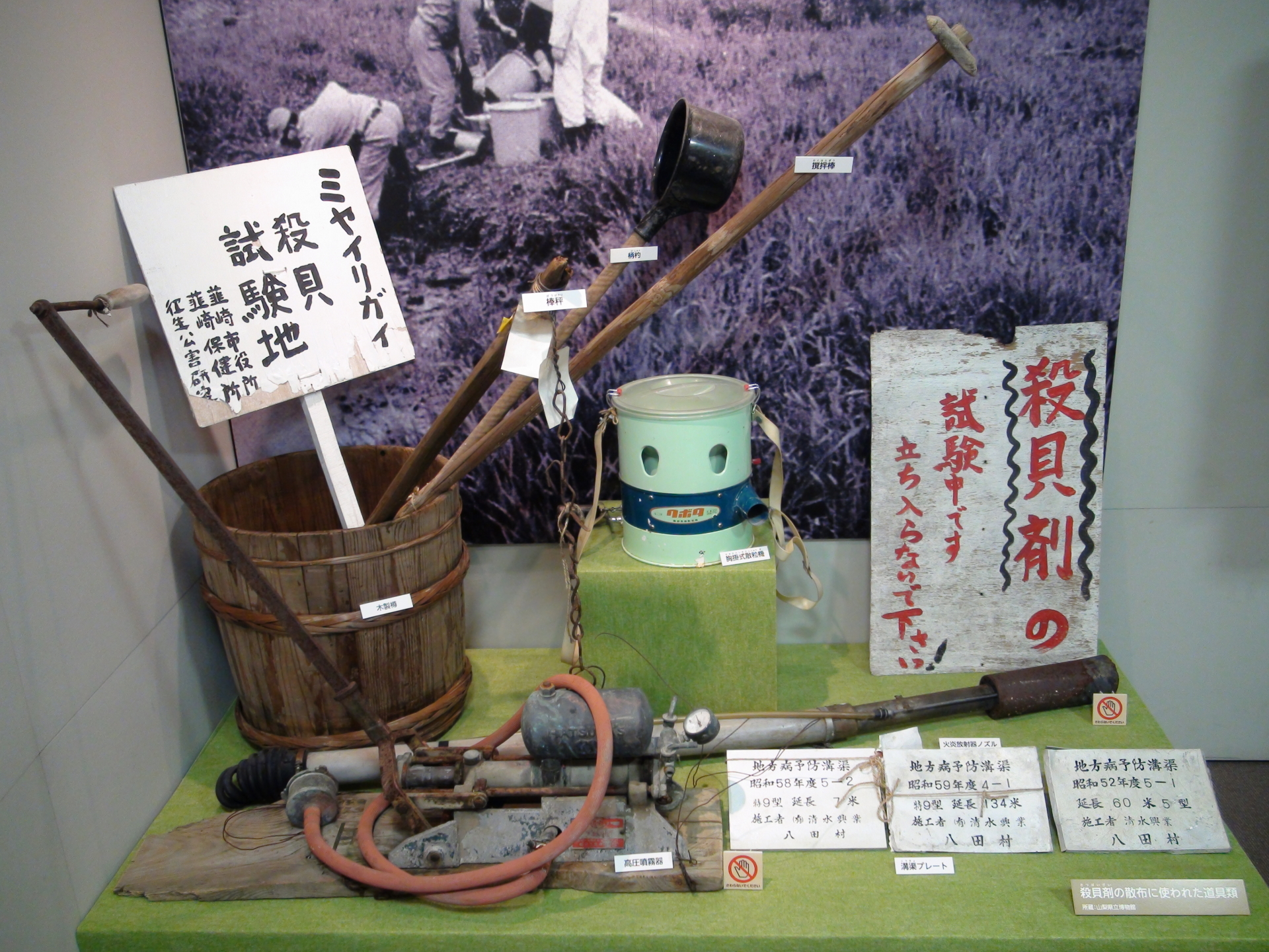 Apparatus of Yamanashi Prefecture that was used to exterminate of the intermediate host snail of Schistosomiasis japonica